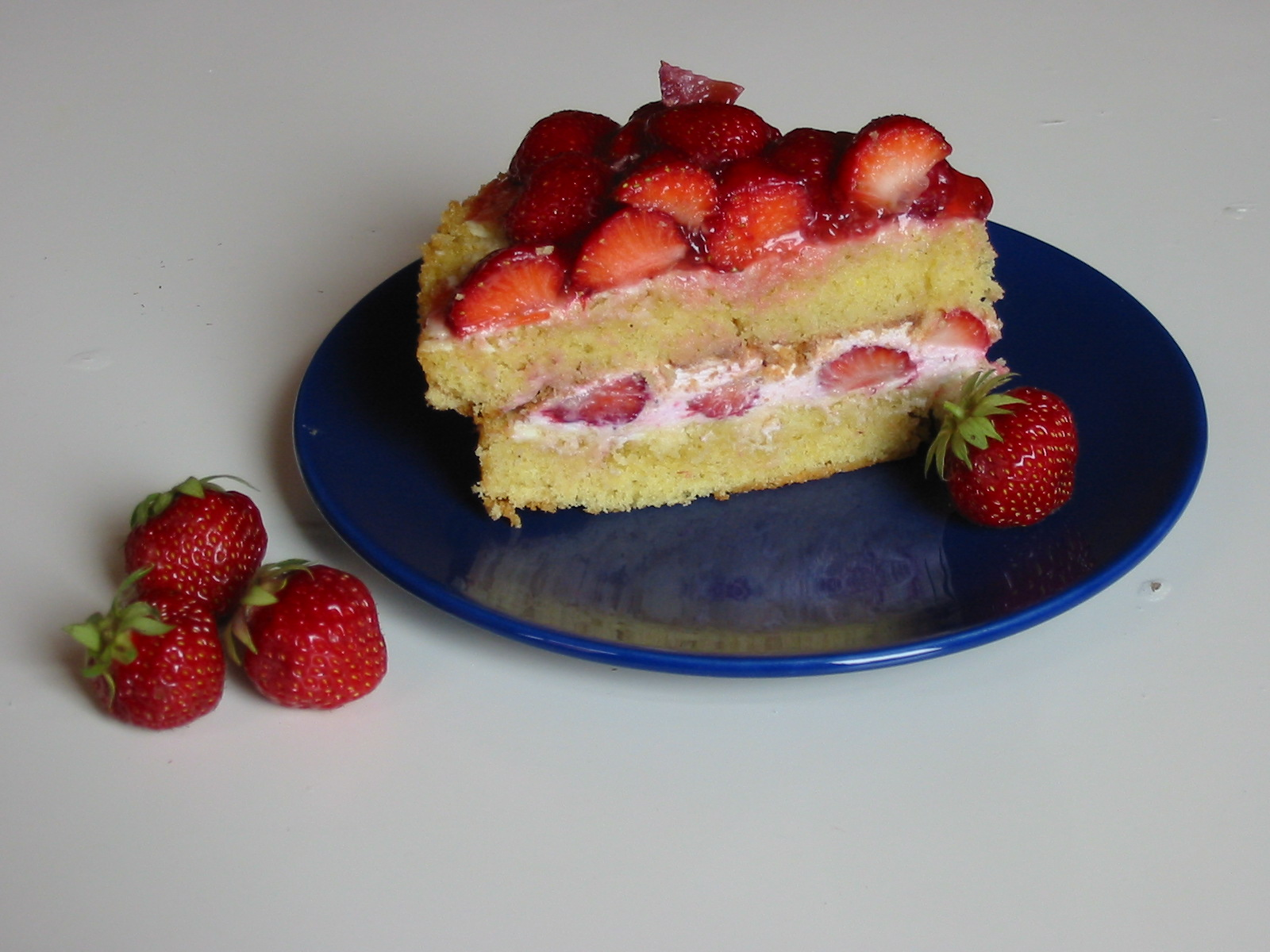 Strawberrycake